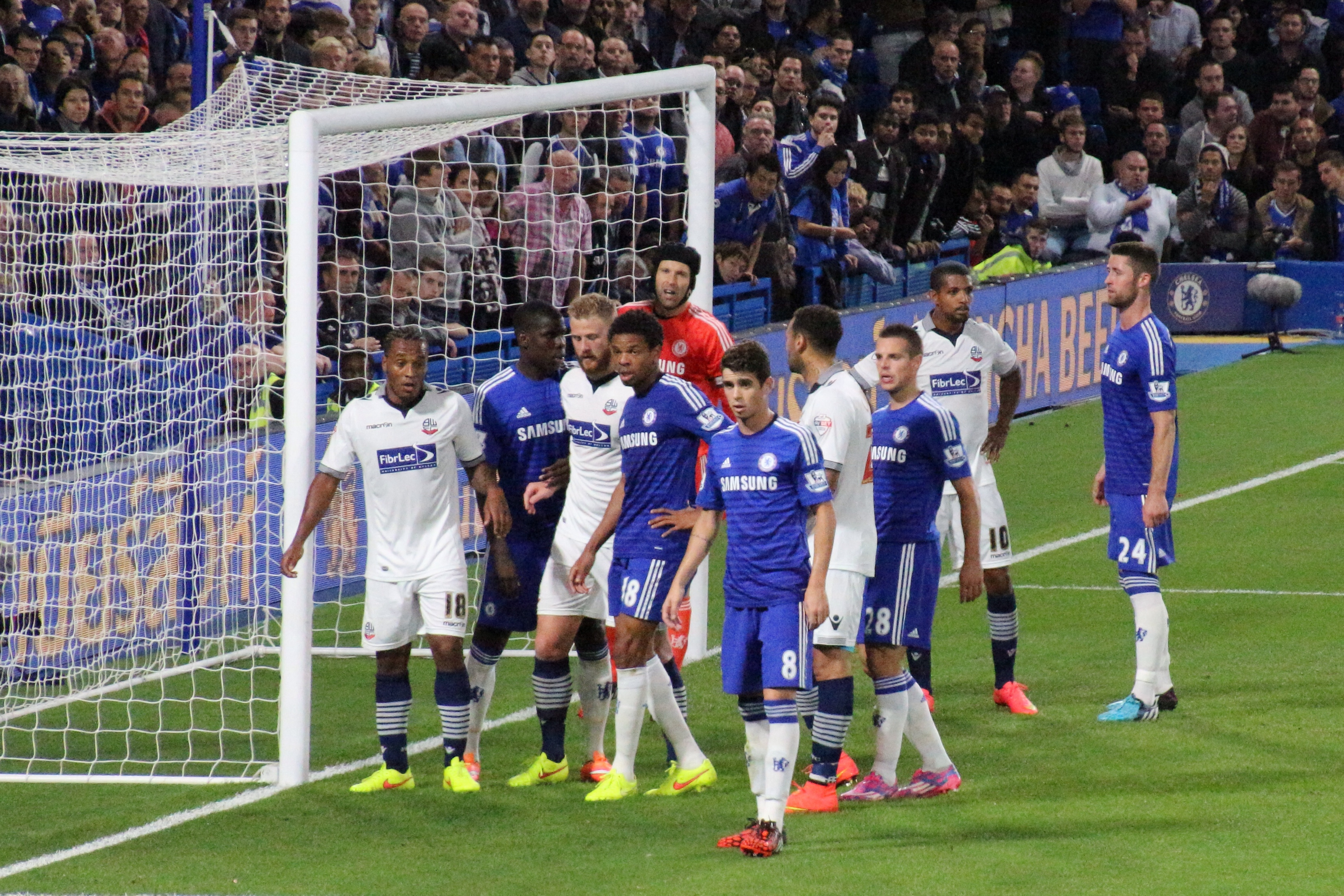 Chelsea 2 Bolton Wanderers 1 Chelsea progress to the next round of the Capital One cup